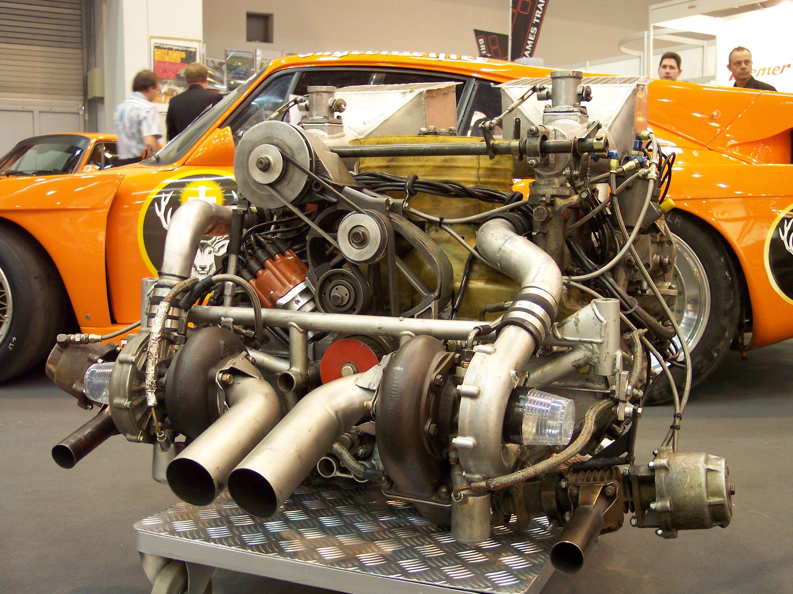 Porsche 935 Bi-Turbo engine.